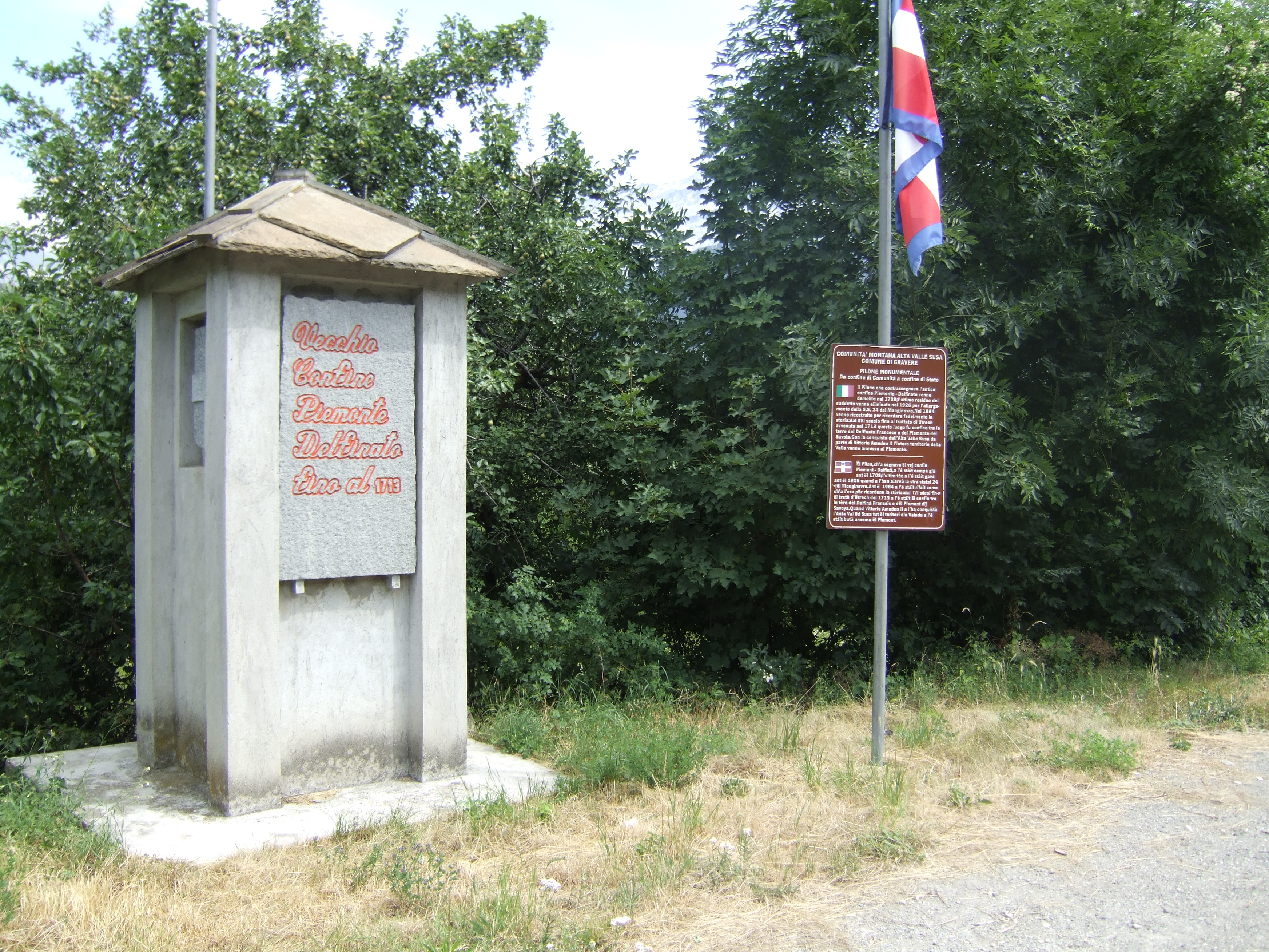 Ancient border between France (Dauphiné) and Duchy of Savoy (until 1713) in the commun of Gravere (Province of Torino, Italy).